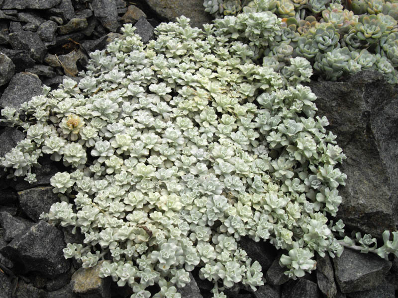 Ewartia planchonii